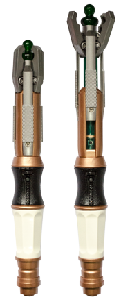 Improved from earlier upload (Sonicscrewdriver2010.jpg) with fewer shadows, more balanced color, common focal length, and better alignment.